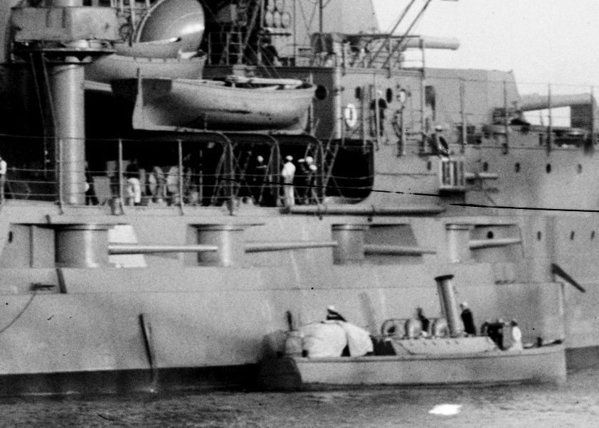 Photograph clip showing starboard forward 5 inch /51 caliber gun battery on battleship USS Utah (BB-31).